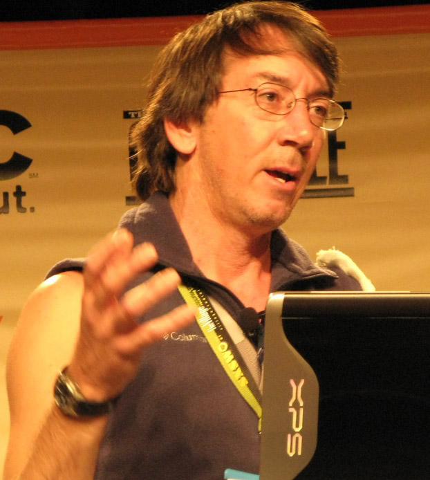 Will Wright speaks at South by Southwest